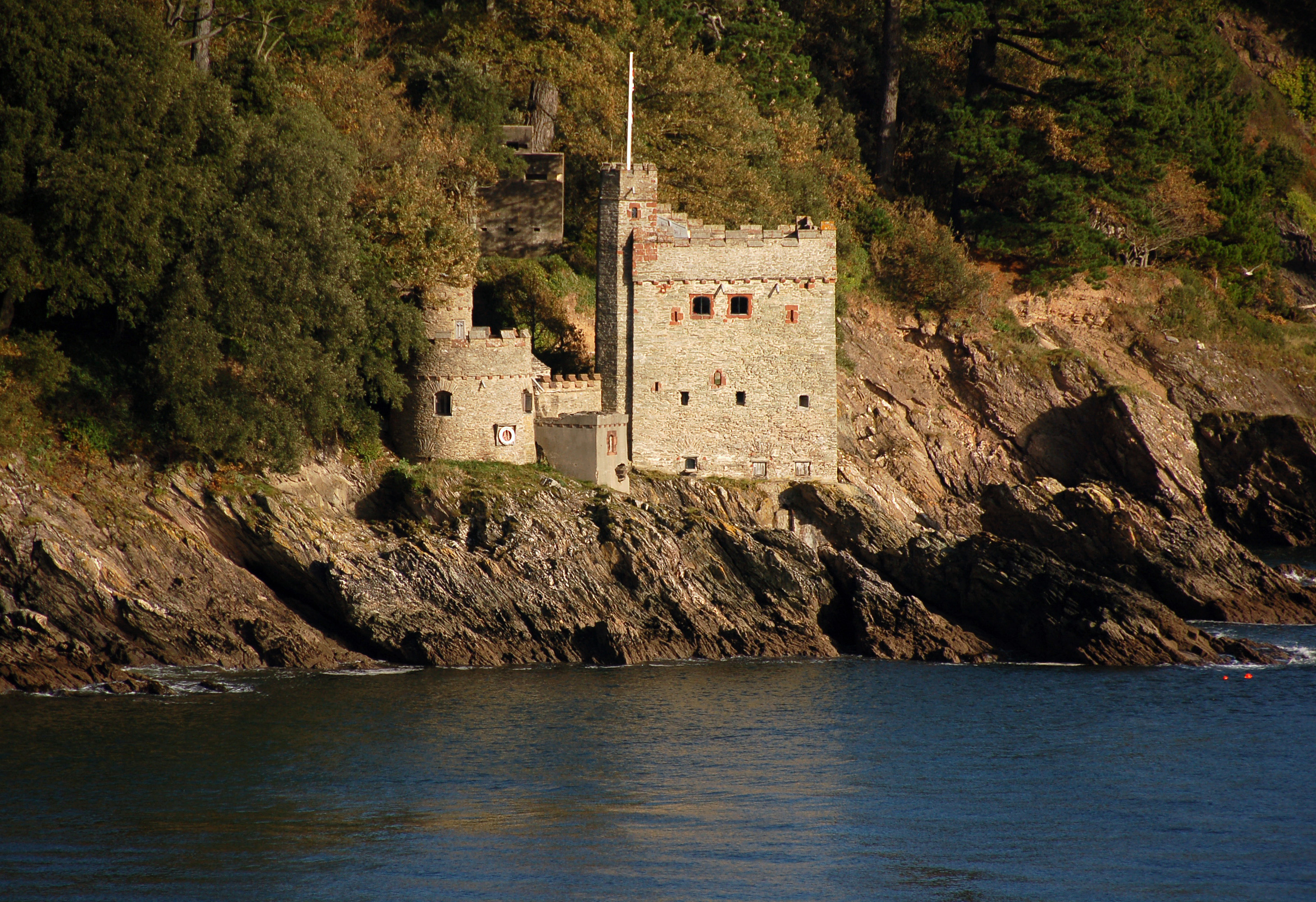 Kingswear Castle, Devon as seen across the mouth of the River Dart from Dartmouth Castle.